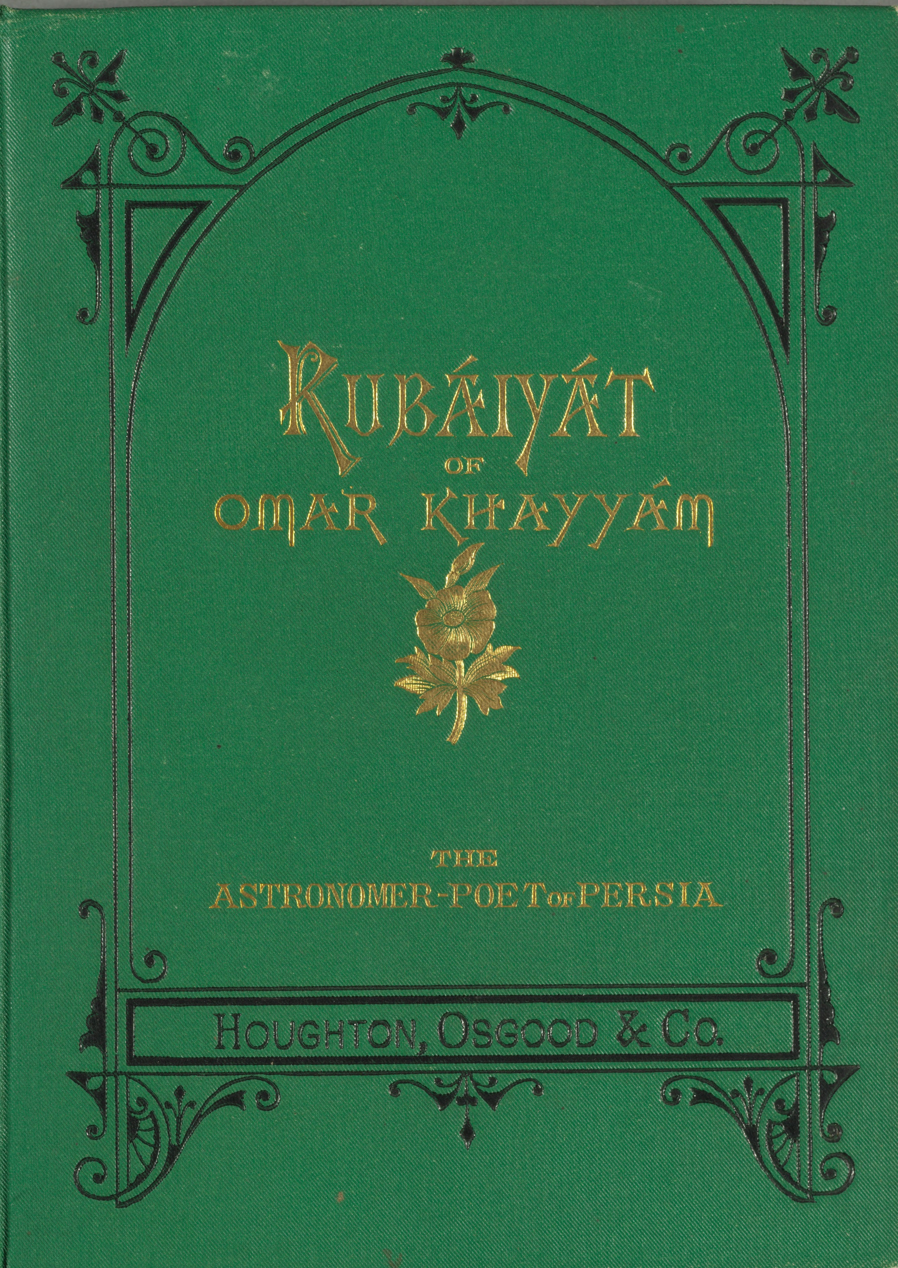 Book cover: The Rubáiyát of Omar Khayyám, the astronomer-poet of Persia. First American edition: Boston, Houghton, Osgood and Company, 1878. From the third edition of the English translation by Edward FitzGerald. *AC85 M4977 Zz878o, Houghton Library, Harvard University